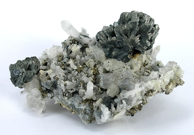 Semseyite, Quartz Locality: Herja Mine (Kisbánya), Baia Mare (Nagybánya), Maramures County, Romania (Locality at ) Size: 5.5 x 5.3 x 2.9 cm. A visually impressive specimen that has to be among the most aesthetic semseyites I have seen: featuring a 2-cm-long spray of semseyite crystals perched, freestanding, at the apex of a cluster of quartz crystals. Ex. Martin Zinn Collection.